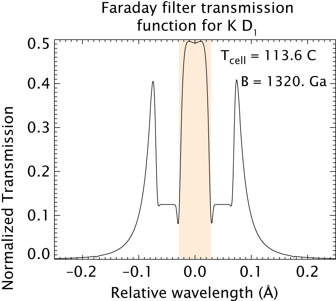 Permission given by Jonathan Friedman to User:Rmrfstar to release under the GFDL on 9/21/06. The details of the diagram as given by Dr. Friedman in an email to Rmrfstar: As the title states, it is the transmission function for potassium at the D1 transition at 770.1093 nm (vacuum). The axial magnetic field is 1320 Ga and the cell temperature is 113.6 C. The fact that the normalized transmission maximum is only 0.5 is because it is for a single polarization. No optical losses are included. The pink area in the center corresponds to the commonly used transmission region of the filter. The abscissa is in wavelength, centered at 770.1093 nm. If you wanted it in frequency, the conversion to GHz is 50 GHz/angstrom, and in wavenumbers it is 1.67 cm−1 per angstrom. This graph image could be re-created using vector graphics as an SVG file. This has several advantages; see Commons:Media for cleanup for more information. If an SVG form of this image is available, please upload it and afterwards replace this template with vector version available|new image name . It is recommended to name the SVG file "K-FADOF-spectrum.svg" - then the template Vector version available (or Vva) does not need the new image name parameter. This graph image was uploaded in the JPEG format even though it consists of non-photographic data. This information could be stored more efficiently or accurately in the PNG or SVG format. If possible, please upload a PNG or SVG version of this image without compression artifacts, derived from a non-JPEG source (or with existing artifacts removed). After doing so, please tag the JPEG version with Superseded|NewImage.ext and remove this tag. This tag should not be applied to photographs or scans. For more information, see BadJPEG .